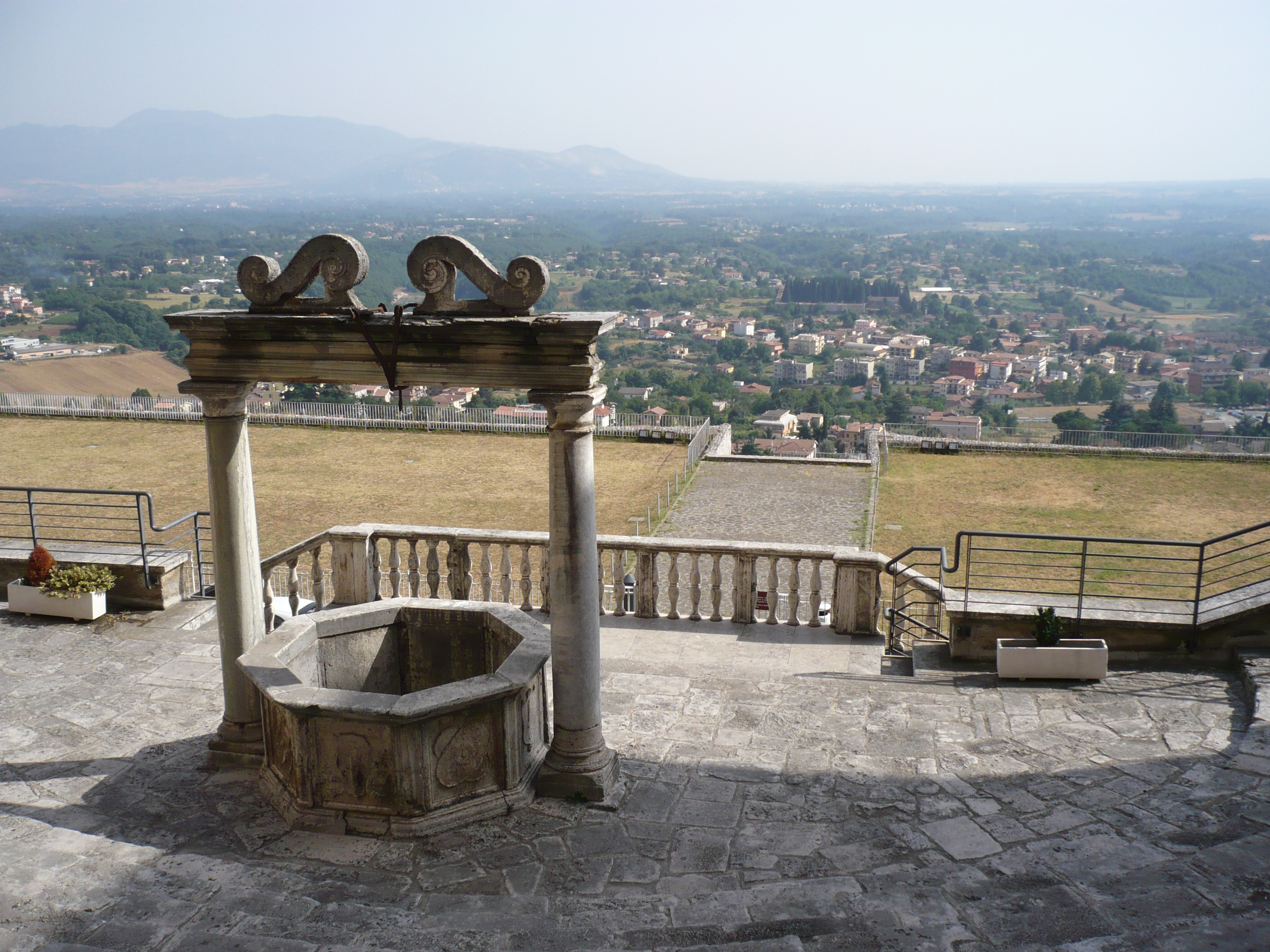 Ruins of the Sanctuary of Fortuna Primigenia and landscape of rural of Palestrina